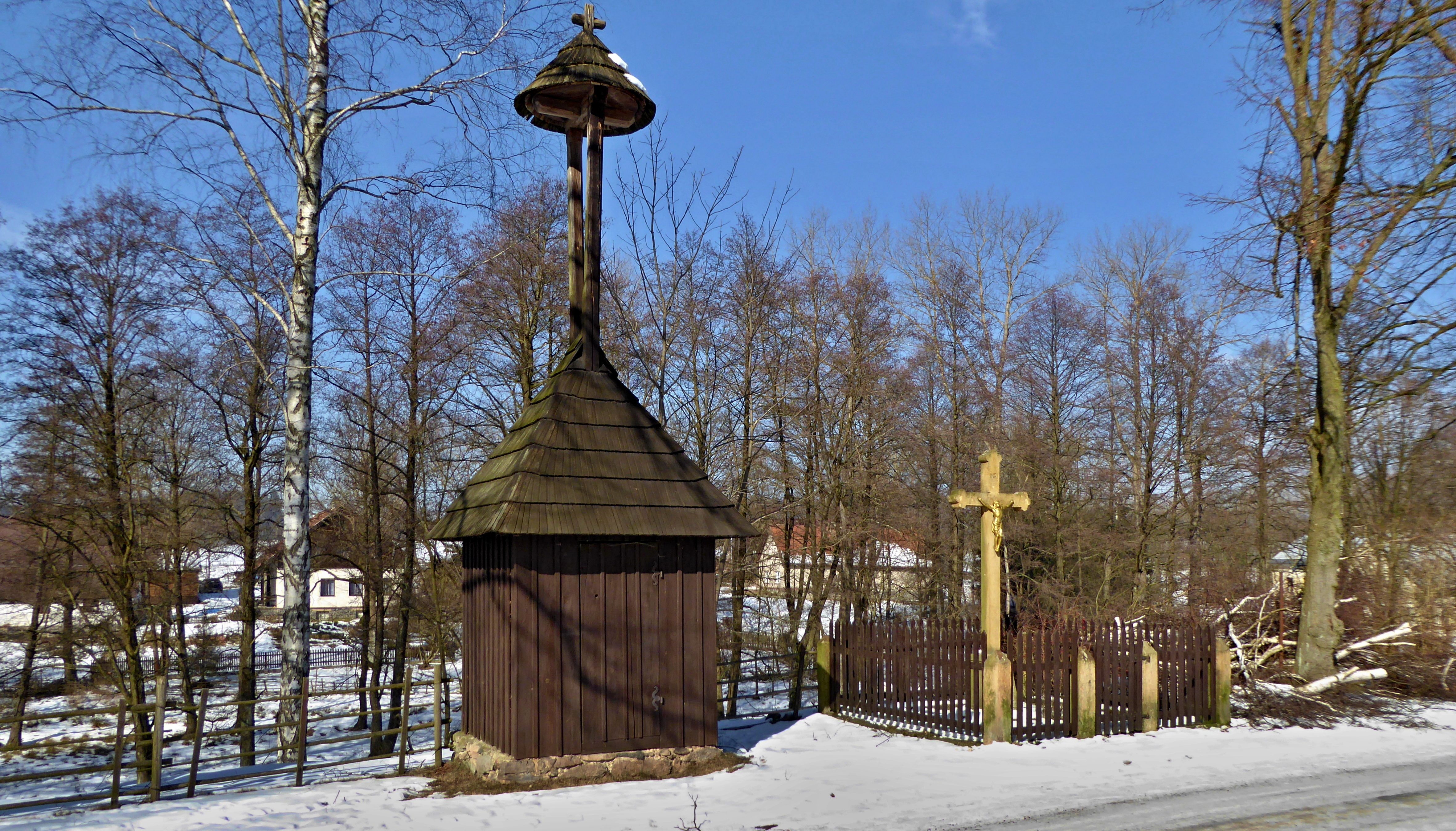 Wooden bell tower and God's torment in the small hamlet of "Možděnice", the village of "Vysočina". Big cross from sandstone with a figure of Jesus Christ on it, built in 1843 and renovated in 1934 (a similar large cross also in nearby villages with names "Zubří" and "Hluboká"). Dating engraved on a block stone pedestal. In 1980, beside the cross, a restored wooden bell tower, according to the drawing the original bell tower from 1885, demolished in 1922, the bell from the original bell tower was hung in the tower of the fire station in the hamlet of "Možděnice" (opposite the wooden bell tower, outside photoshoot). Historical monuments in the yellow tourist route of the Czech Tourists Club (part of the route: the small hamlets Zubří – Možděnice – Kocourov) in the Protected landscape area Iron Mountains. Photo location: Czechia, Pardubice Region, municipality Vysočina, the hamlet of "Možděnice", "Stružinecká" knoll hill.